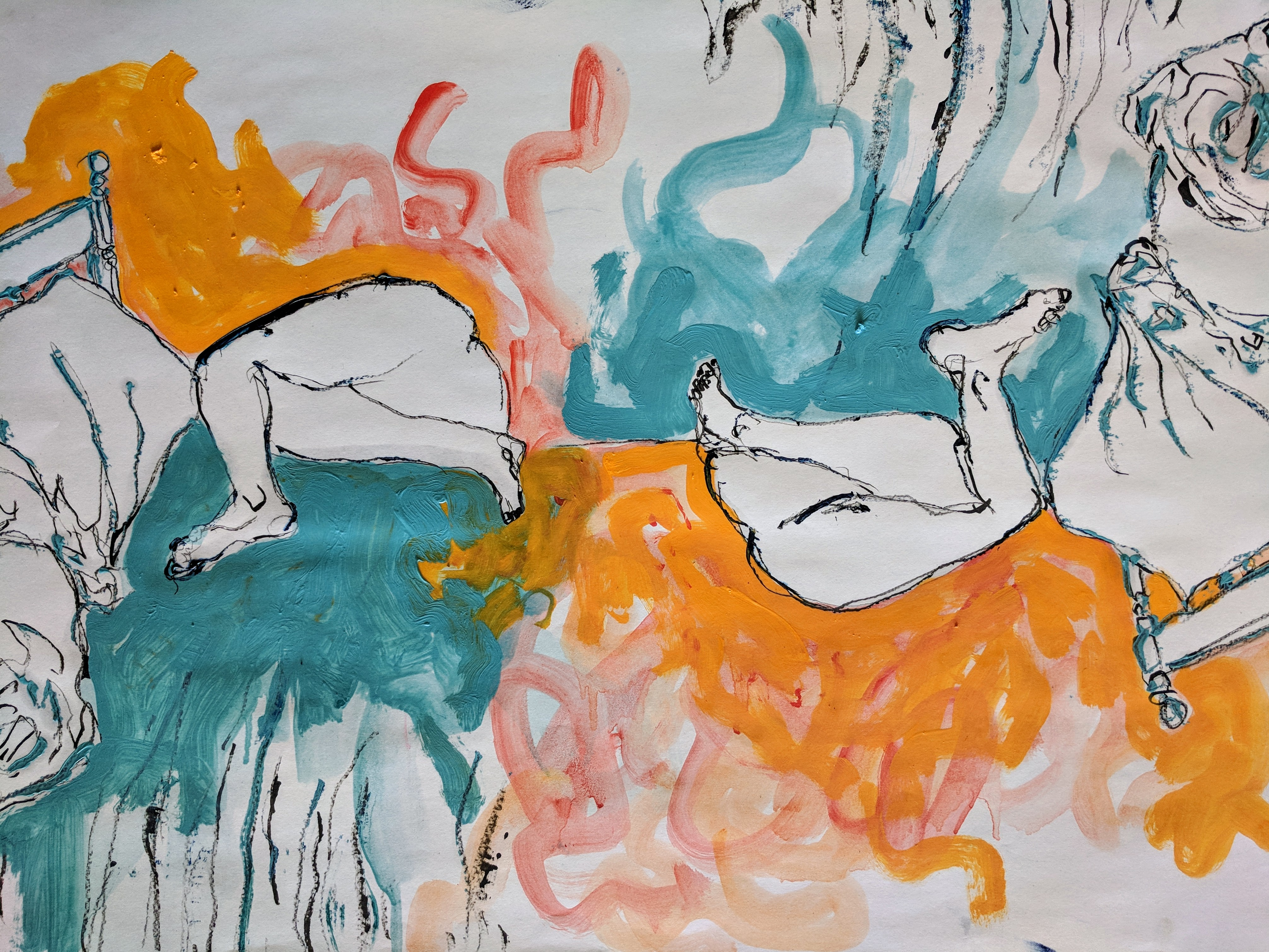 L'Appel du Vide painting, 2018.